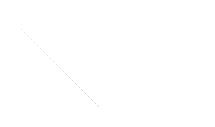 An obtuse angle.